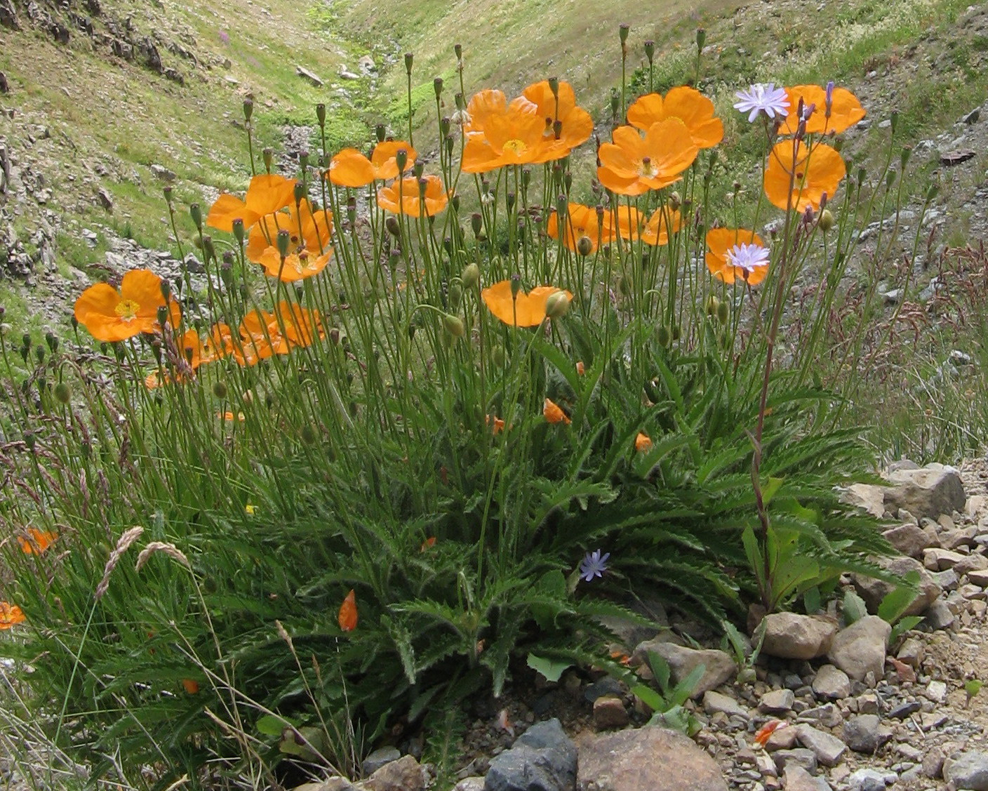 Papaver lateritium subsp. lateritium